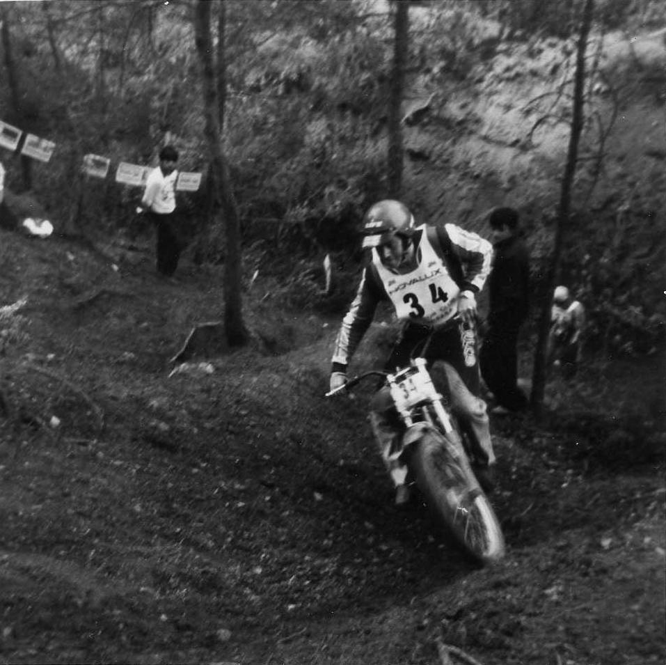 Martin Lampkin with his Bultaco Sherpa at XII "Trial de Sant Llorenç" in Matadepera (Catalonia) on March 12, 1978. It was the 5th race of the Trial World Championship. He finished 2nd behind Bernie Schreiber.This was the section #15, near "La Barata" (close to the road from Matadepera to Talamanca).